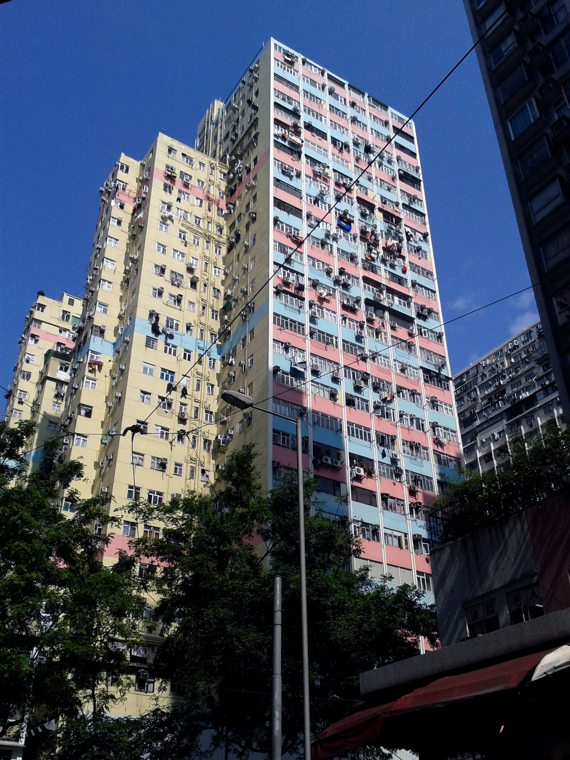 Kiu Kwan Mansion, No.395 King's Road, Tallest Building of Hong Kong from 1966 - 1969.